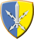 Coat of Arms of the Italian Army's Electronic Warfare Brigade